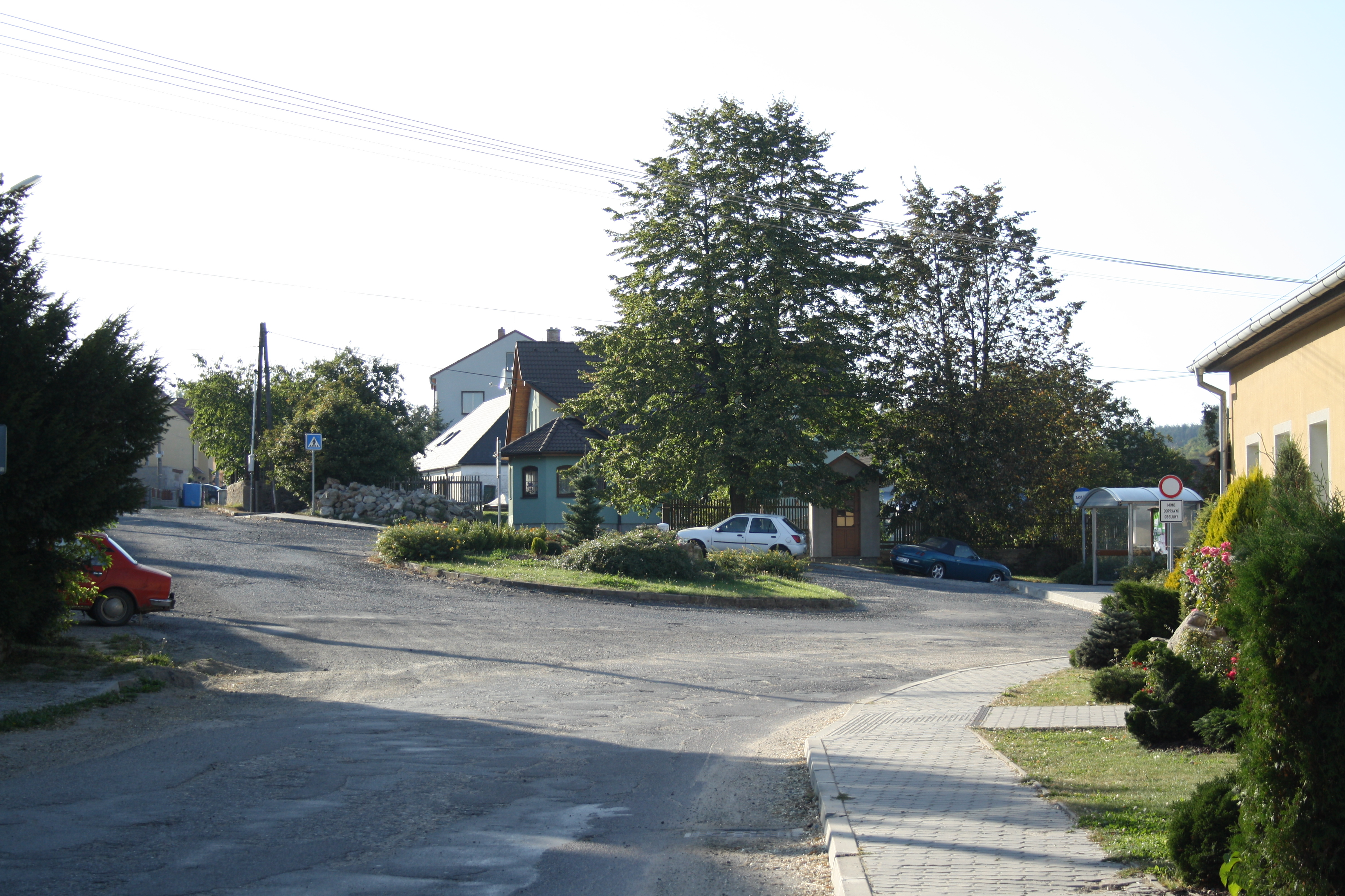 Village square in Okřešice, Czech republic.